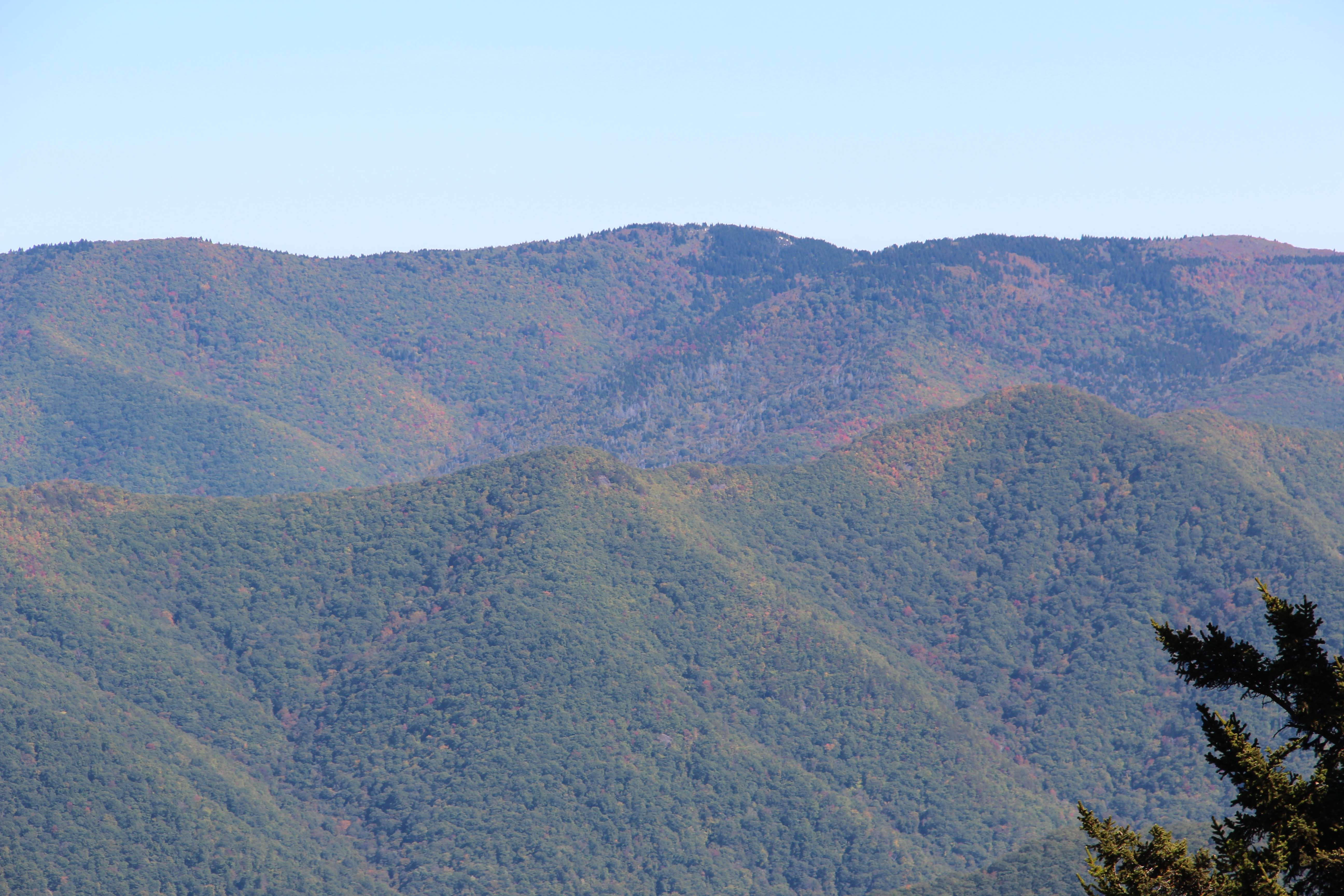 Shining Rock viewed from Haywood-Jackson Overlook